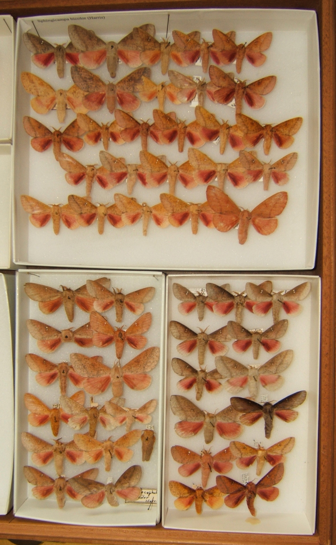 Sphingicampa bicolor adult variation taken by Shawn Hanrahan at the Texas A&M University Insect Collection in College Station, Texas.